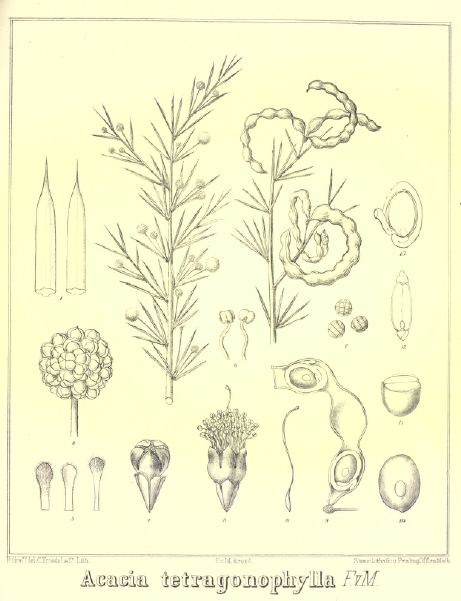 Acacia tetragonophylla 1, part of a phyllodium. 2, flower-head. 3, bracts. 4, unexpanded flower. 5, expanded flower. 6, front- and back-view of a stamen. 7, pollen-grains. 8, pistil. 9, lower portion of a fruit-valve with seeds. 10, a seed separated. 11, transverse section of a seed. 12 and 13, longitudinal sections of seeds. All enlarged, but to various extent.